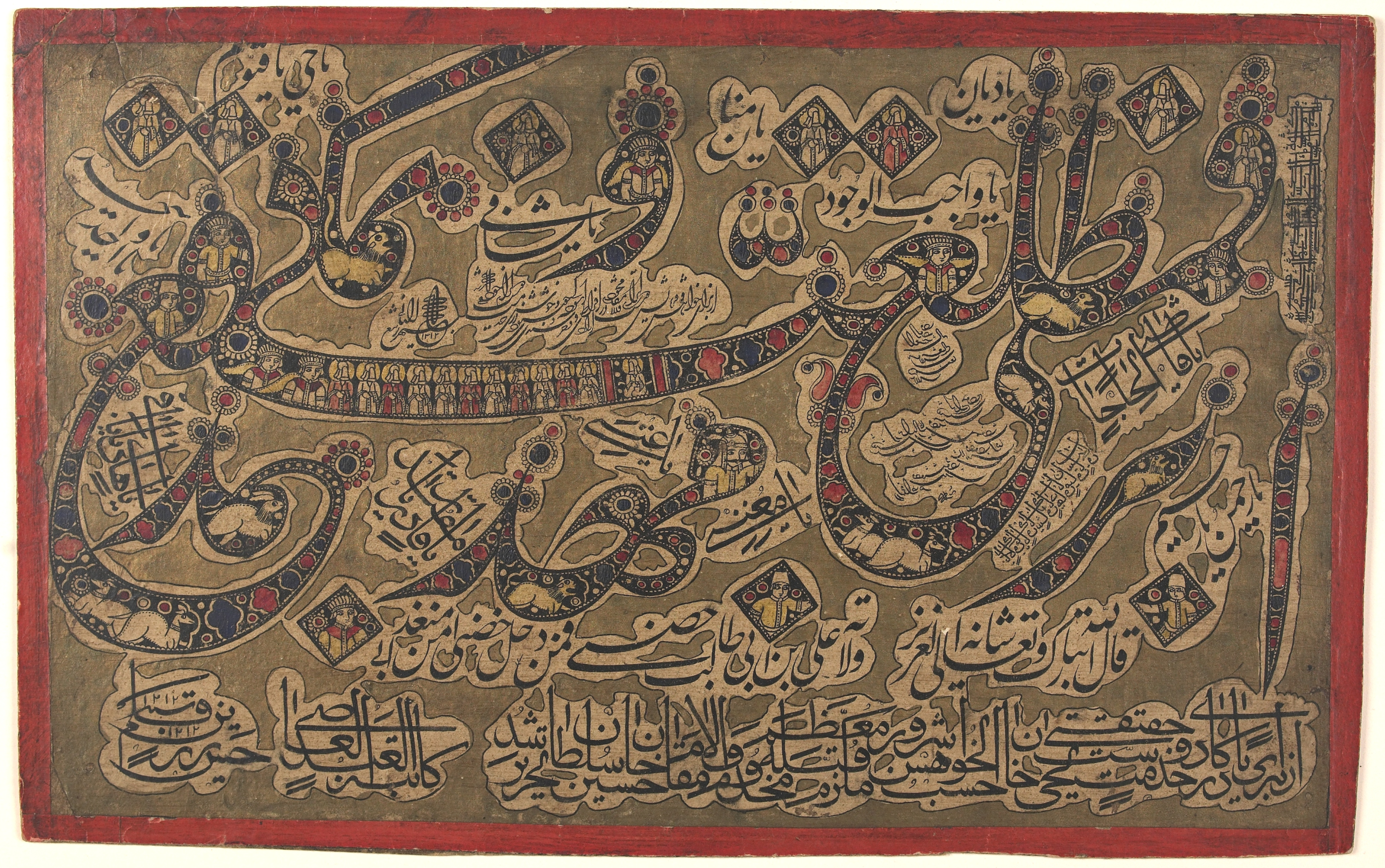 This calligraphic panel executed in black and red on a white ground decorated in gold contains a number of prayers (du'as) directed to God, the Prophet Muhammad, and his son-in-law 'Ali. The letters of the larger words are executed in nasta'liq script and filled with various decorative motifs, animals, and human figures. The human figures standing side-by-side in the central horizontal letter represent the eleven Shi'i imams and (a kneeling) Imam ‘Ali, holding his double-edged sword Dhu al-Fiqar. All around the larger letters composed in the nasta'liq style and filled with motifs appear smaller Shi'i prayers purposefully executed in a number of different scripts. These include thuluth, naskh, nasta'liq, shikastah, tawqi', and Kufi. One inscription is even written in reverse, as if executed with the help of a mirror. The sheer variety of these scripts, along with the larger central gulzar composition, was intended to showcase Husayn Zarrin Qalam's mastery of all the major calligraphic scripts.